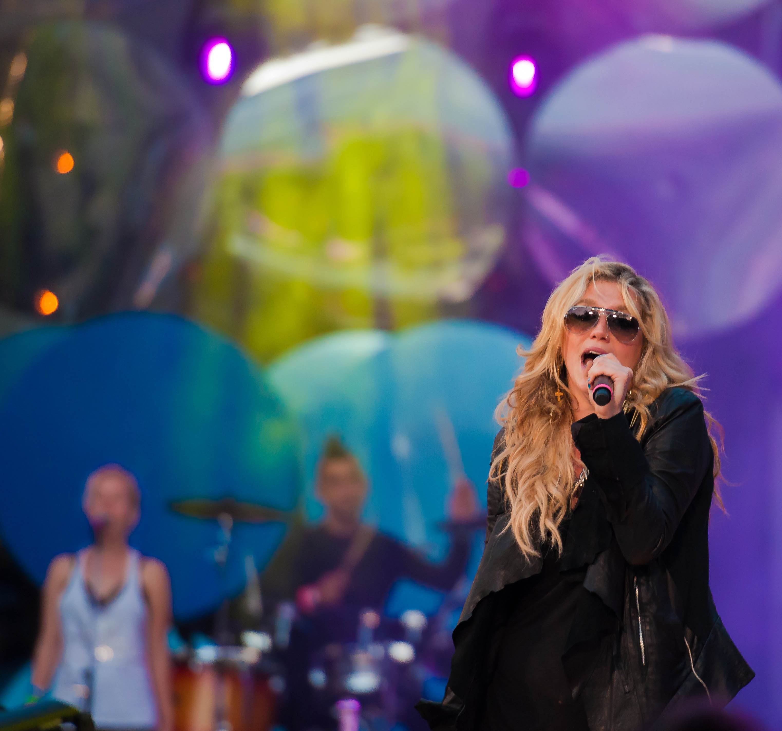 Kesha - MMVA Soundcheck